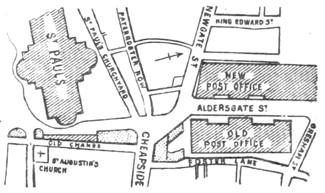 1888 plan of the area around St Martin's Le Grand, adjacent to St Paul's Cathedral, in the City of London.